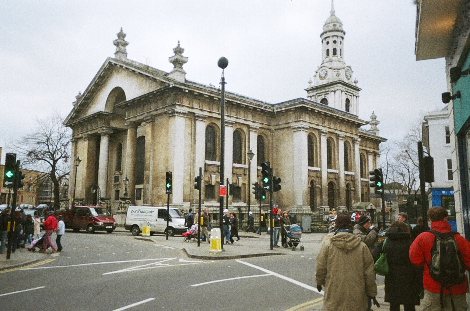 Church in Greenwich. Posted by user:SpaceMonkey. Photograph by Robert Cooke.